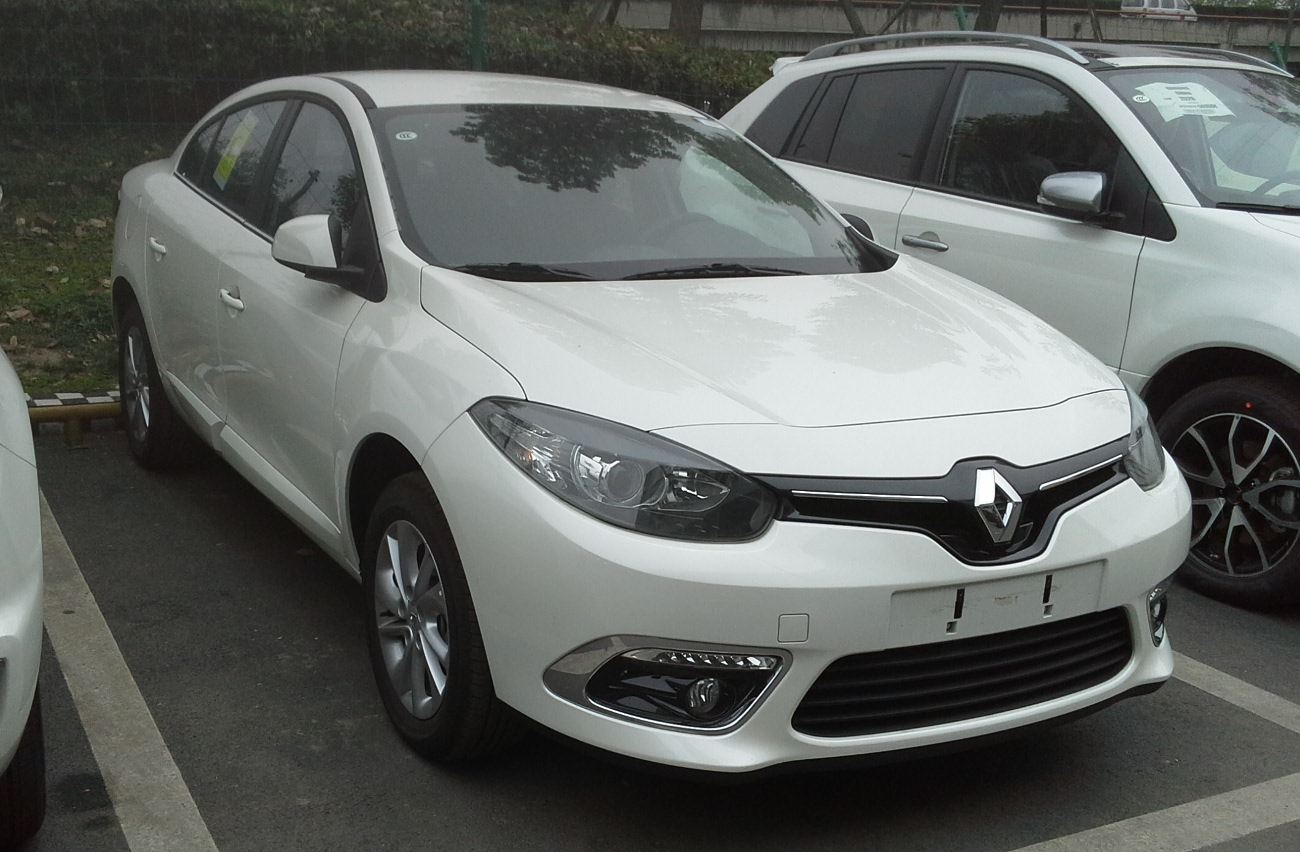 Renault Fluence facelift II photographed in Chengdu, Sichuan province, China.